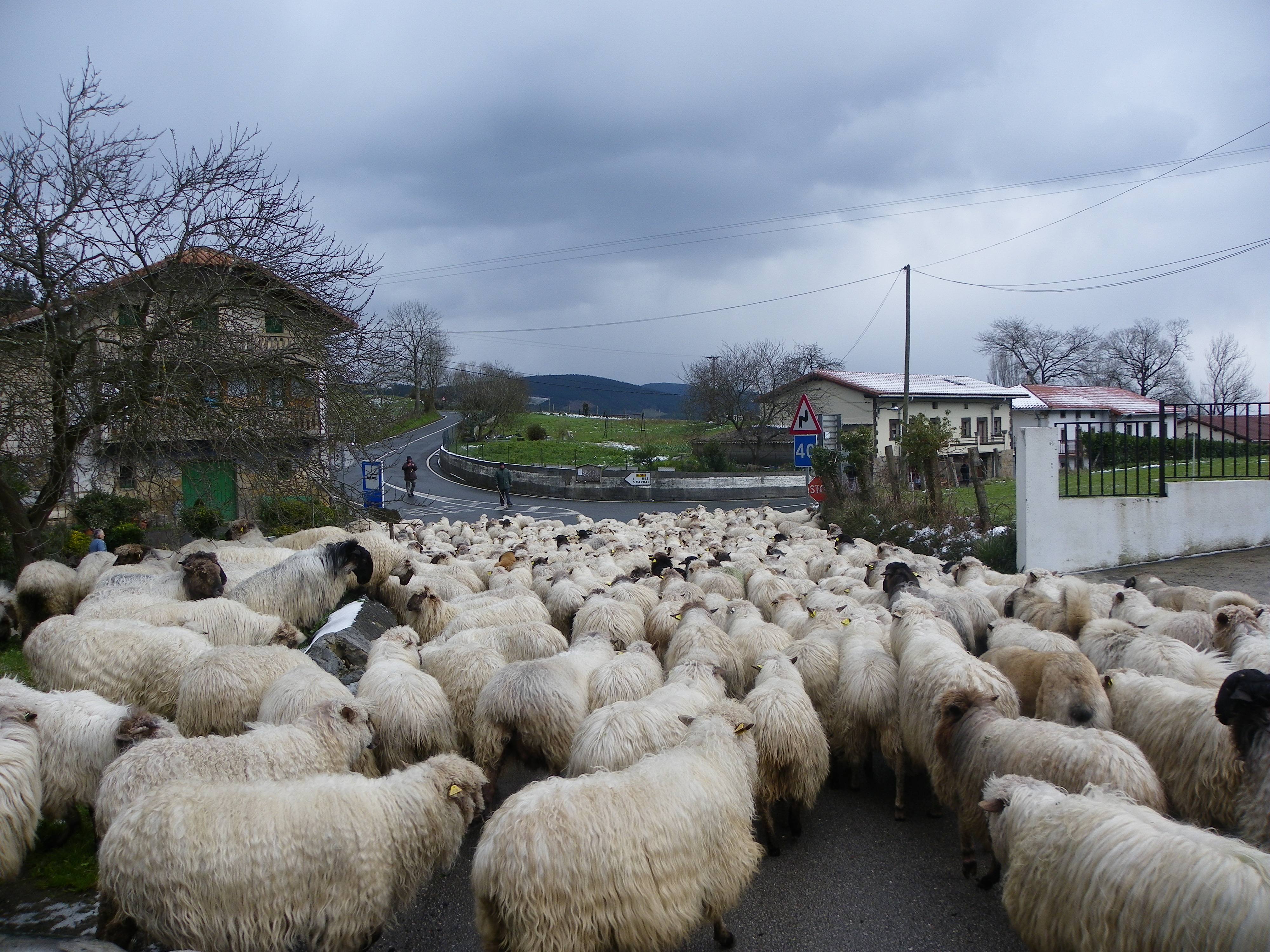 Transhumance in Enkarterri, Basque Country.